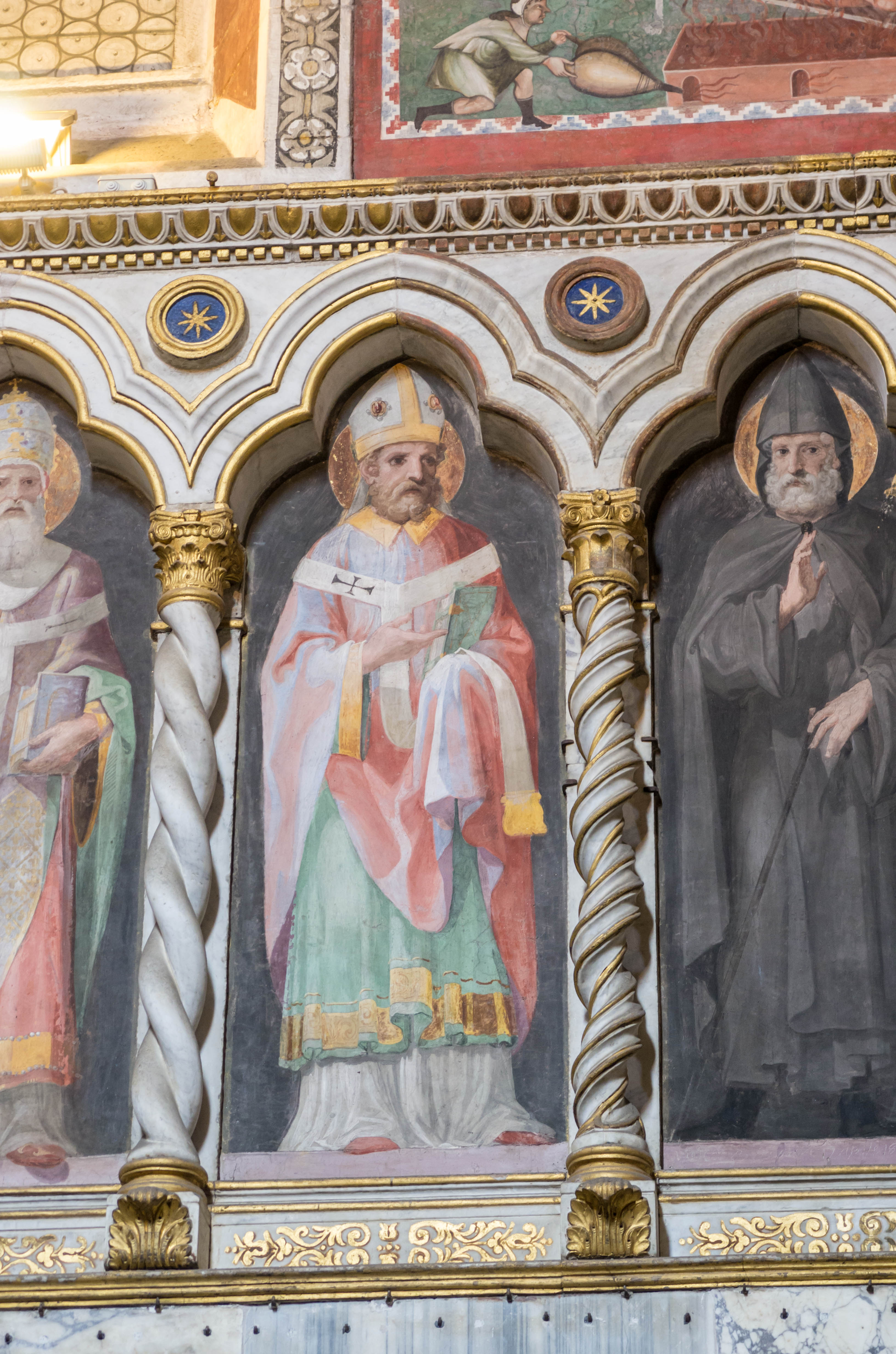 Sancta Sanctorum (Rome)